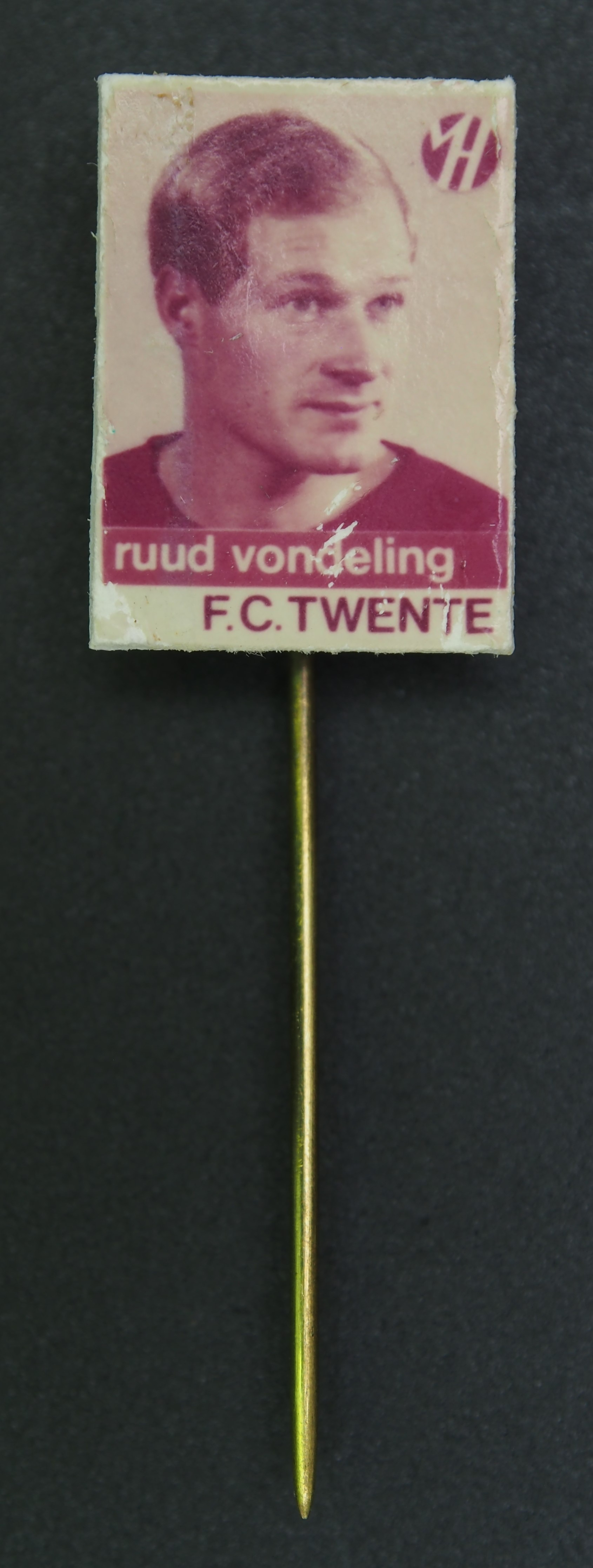 Advertising pin of an old (Dutch) product or brand.